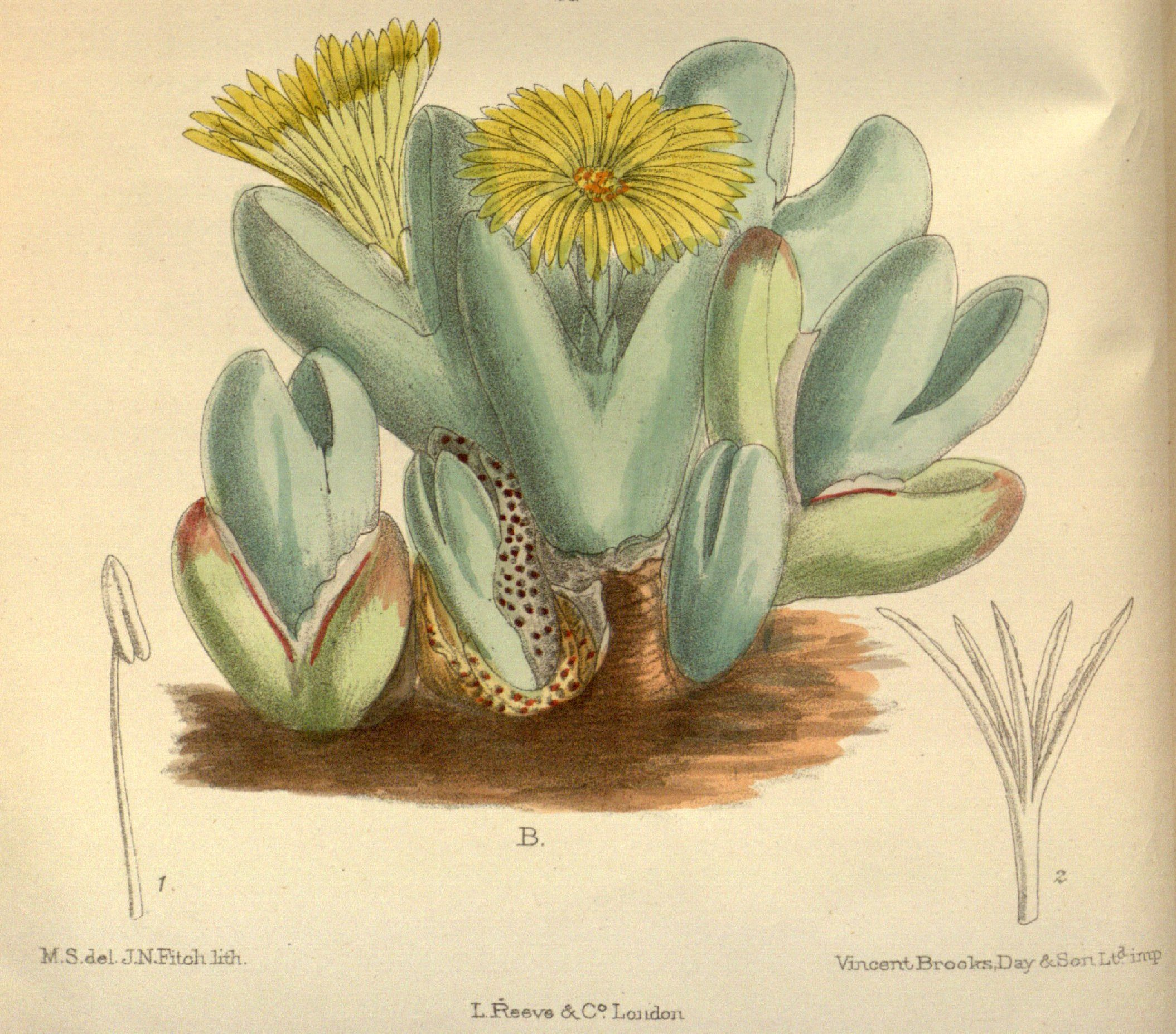 Mesembryanthemum stylosum (= Conophytum bilobum var. bilobum), Aizoaceae